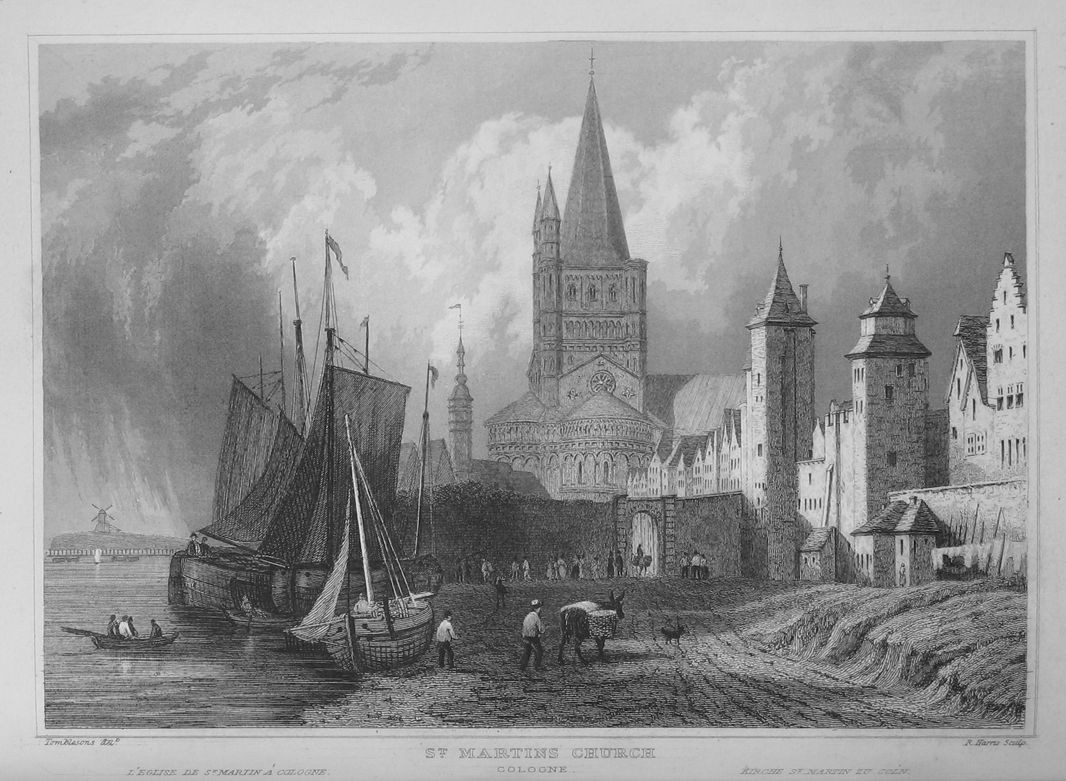 Steel engraving from "Views of the Rhine" by William Tombleson (around 1840): St Martins Church (Cologne)